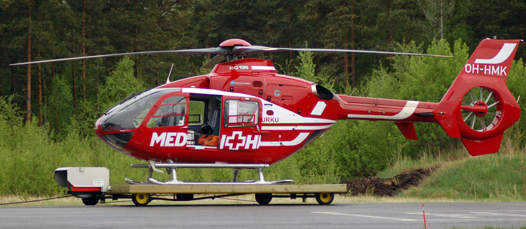 A Eurocopter EC 135, used as a rescue service helicopter.